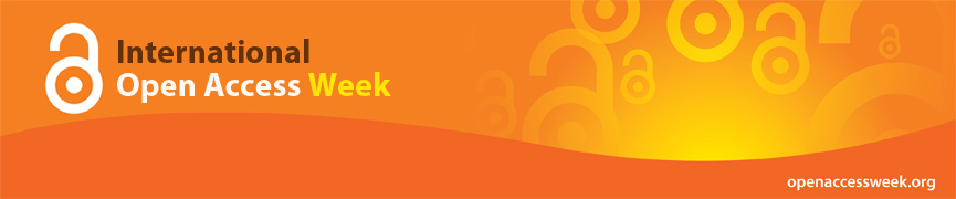 A web banner in use during Open Access Week.